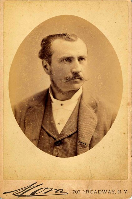 Portrait of Hiram Codd by Jose Maria Mora